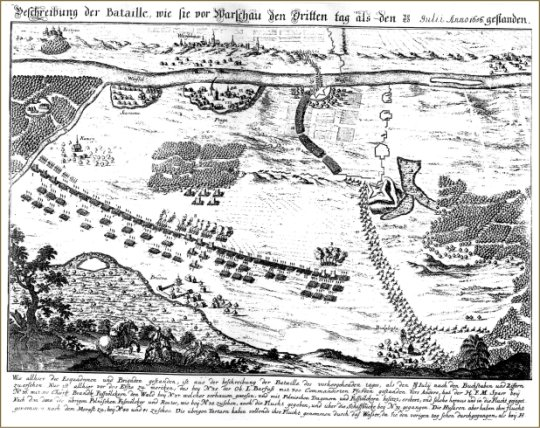 Battle of Warsaw 1656, Praga and Kamion in the middle